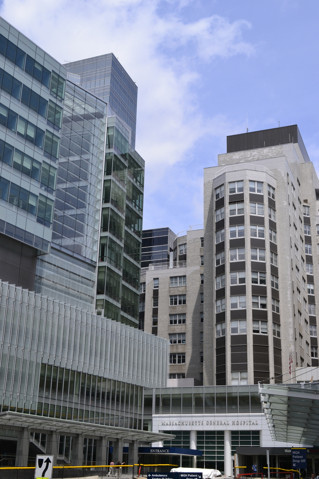 This is the main entrance of MGH in Boston, MA. The building on the right is the White Building. The building on the left is the Lunder Building.